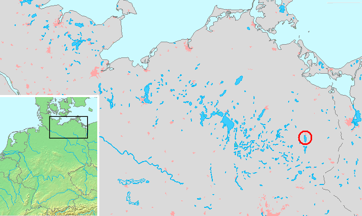 Locator maps of lakes in Germany : Location Unteruckersee.PNG